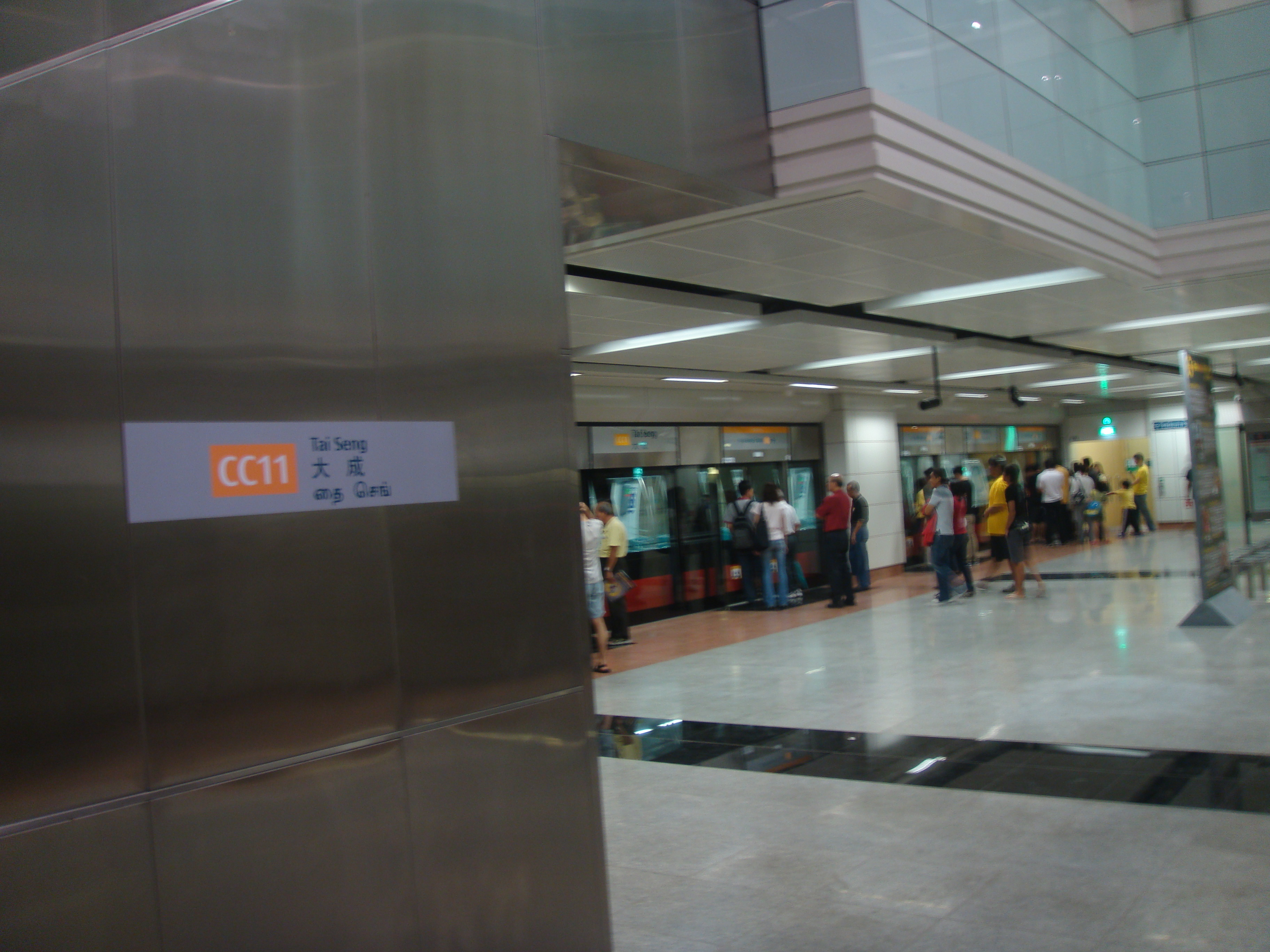 Circle Line platform of Tai Seng MRT Station, taken on the LTA Circle Line Discovery II Open House.